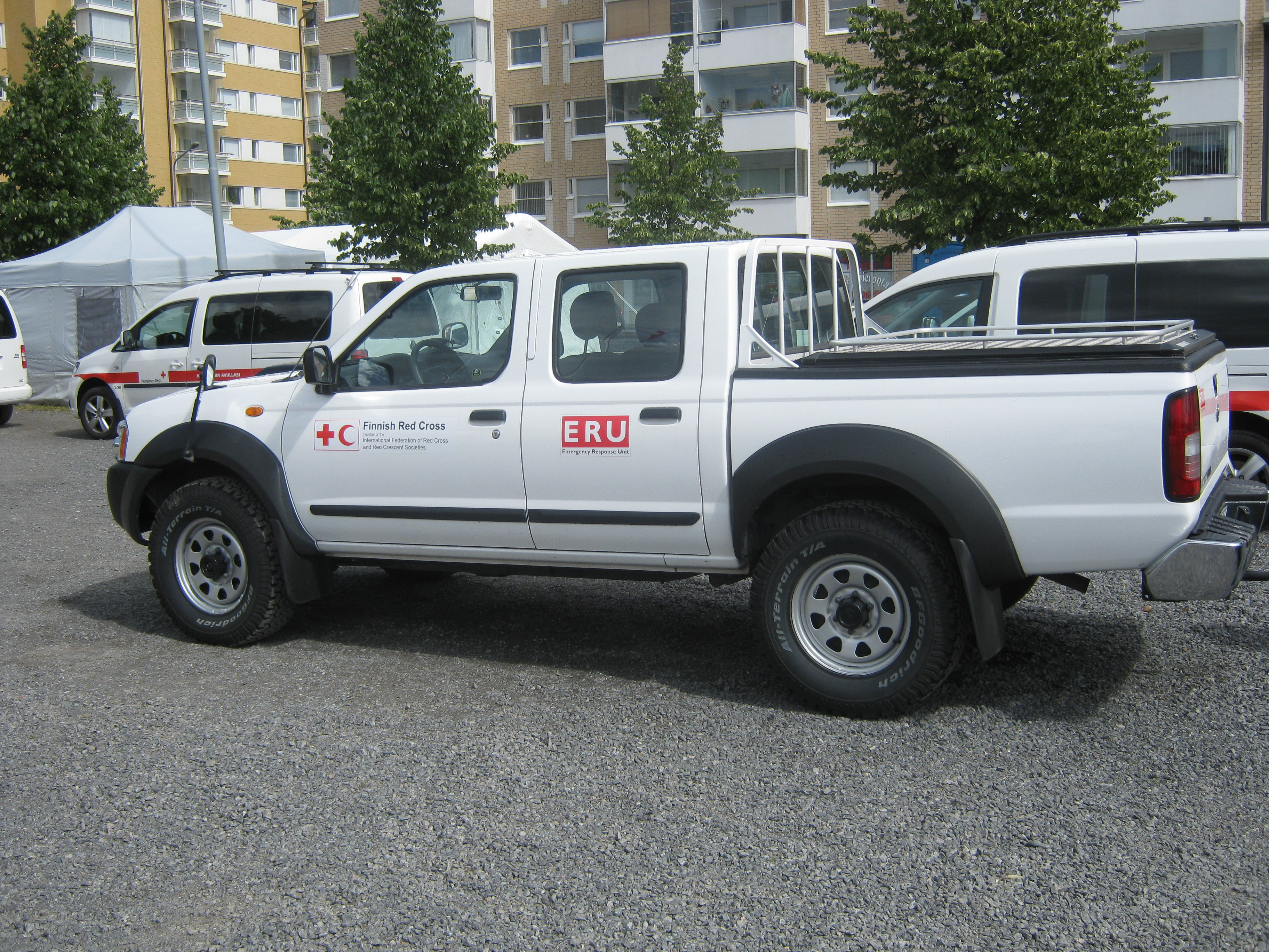 Finnish Red Cross Emergency Response Unit vehicle, shown in an exhibition at Pori, Finland.